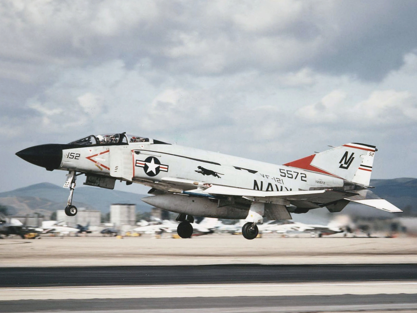 A U.S. Navy McDonnell F-4J-34-MC Phantom II (BuNo 155572) of Fighter Squadron 121 (VF-121) "Pacemakers" landing at Naval Air Station Miramar, California (USA), in 1978.